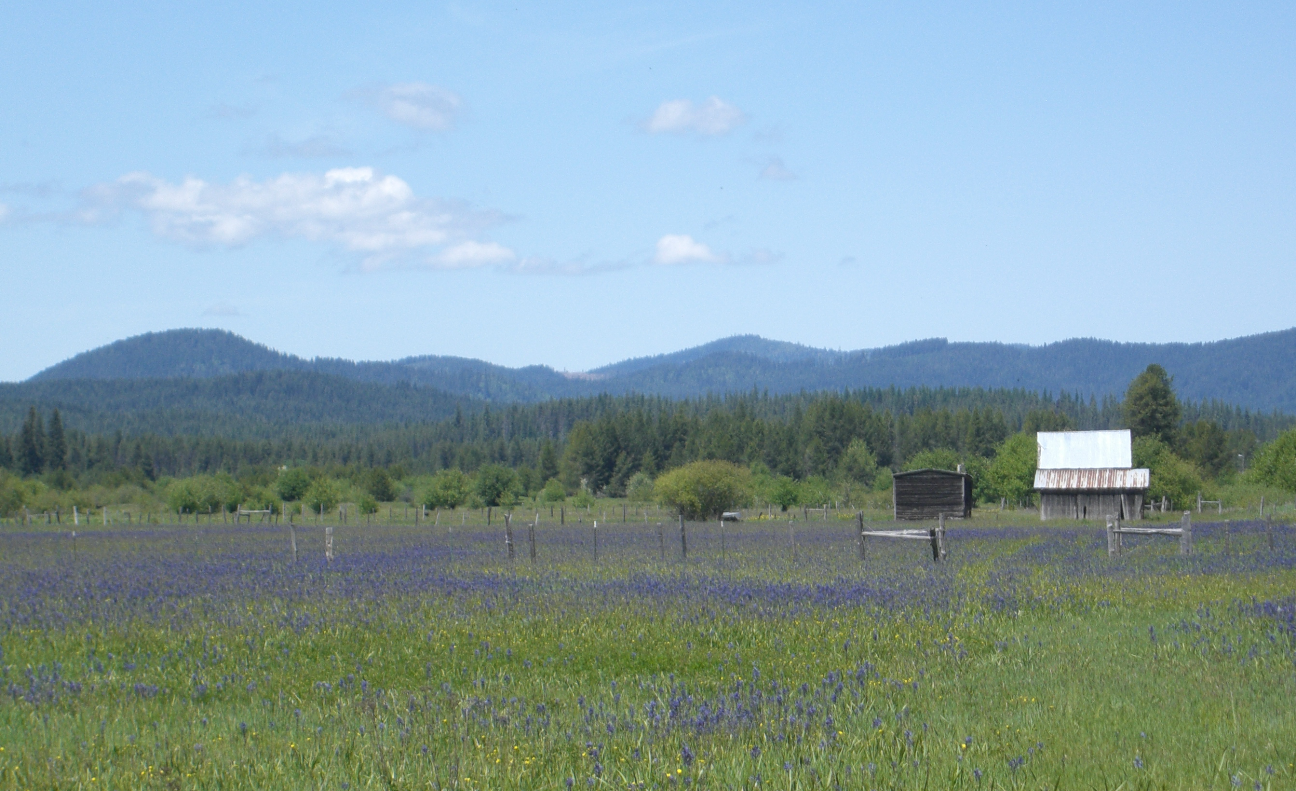 Camassia in bloom near Bovill, Idaho